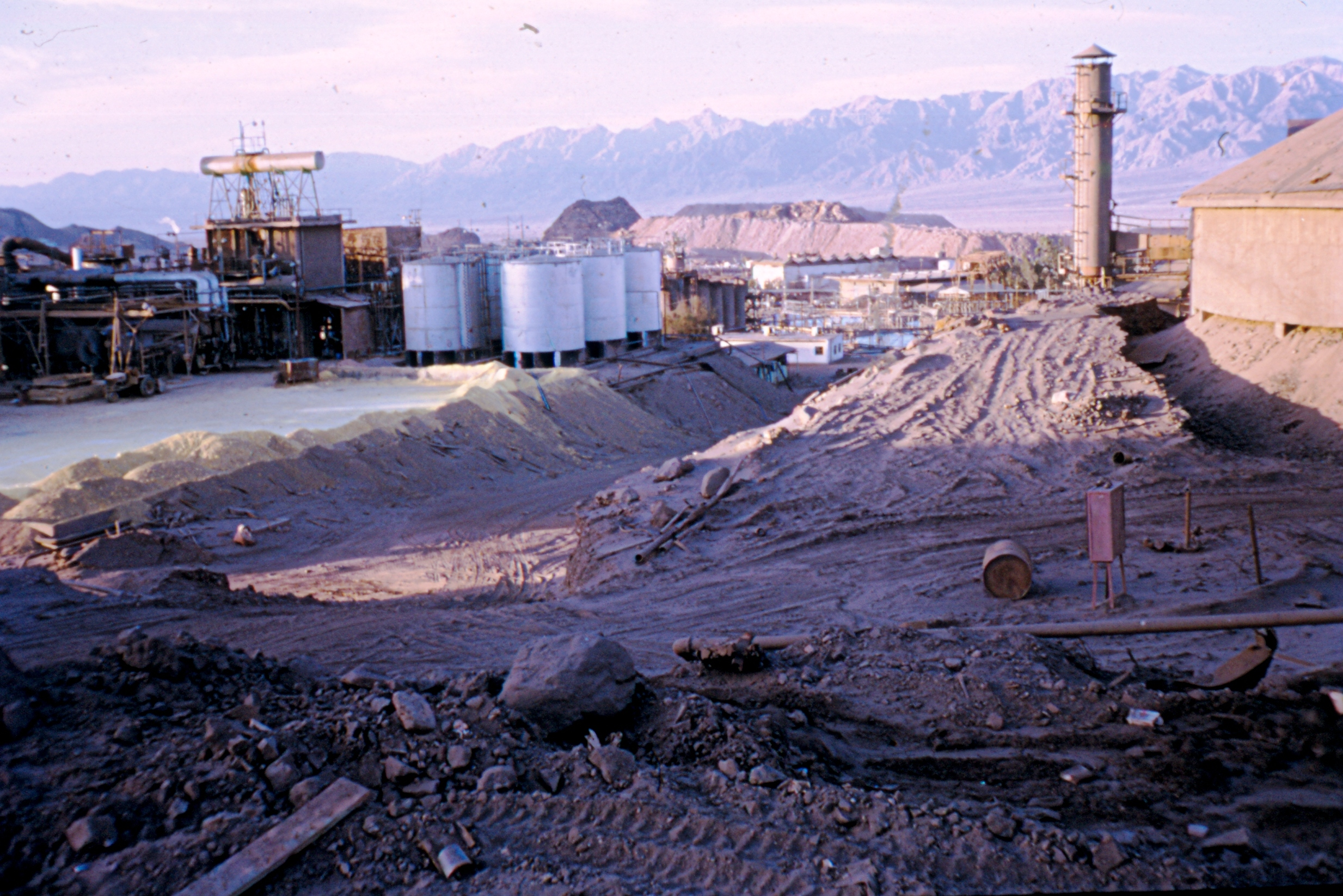 The_old_mine_a_Timna